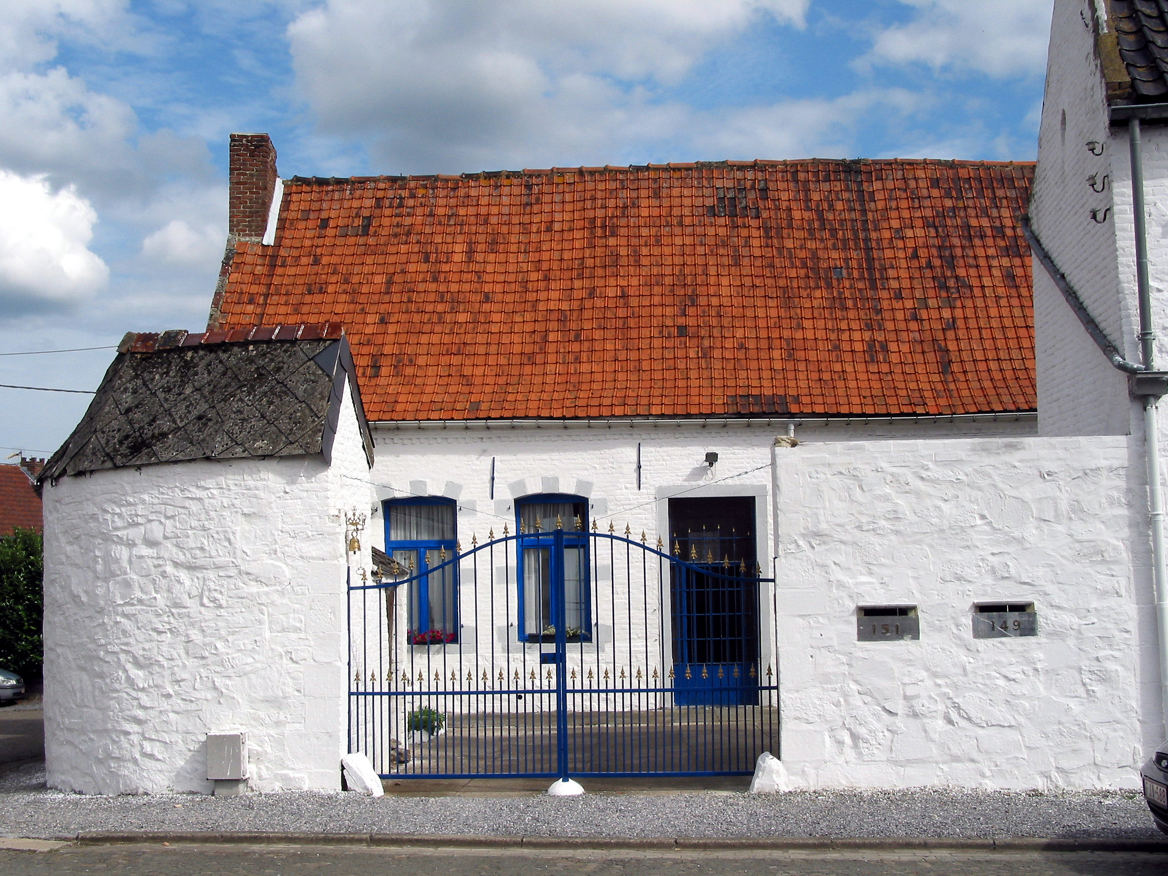 Estinnes-au-Val (Belgium), rue Grande 149-151 – Ancient house with enclosed court (XVIIIth century).